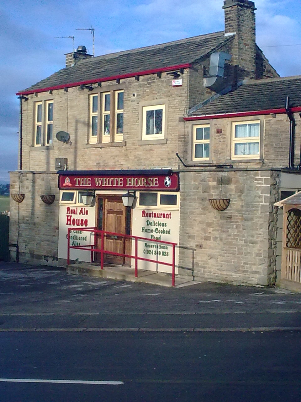 The White Horse Other information Taken with my phone camera